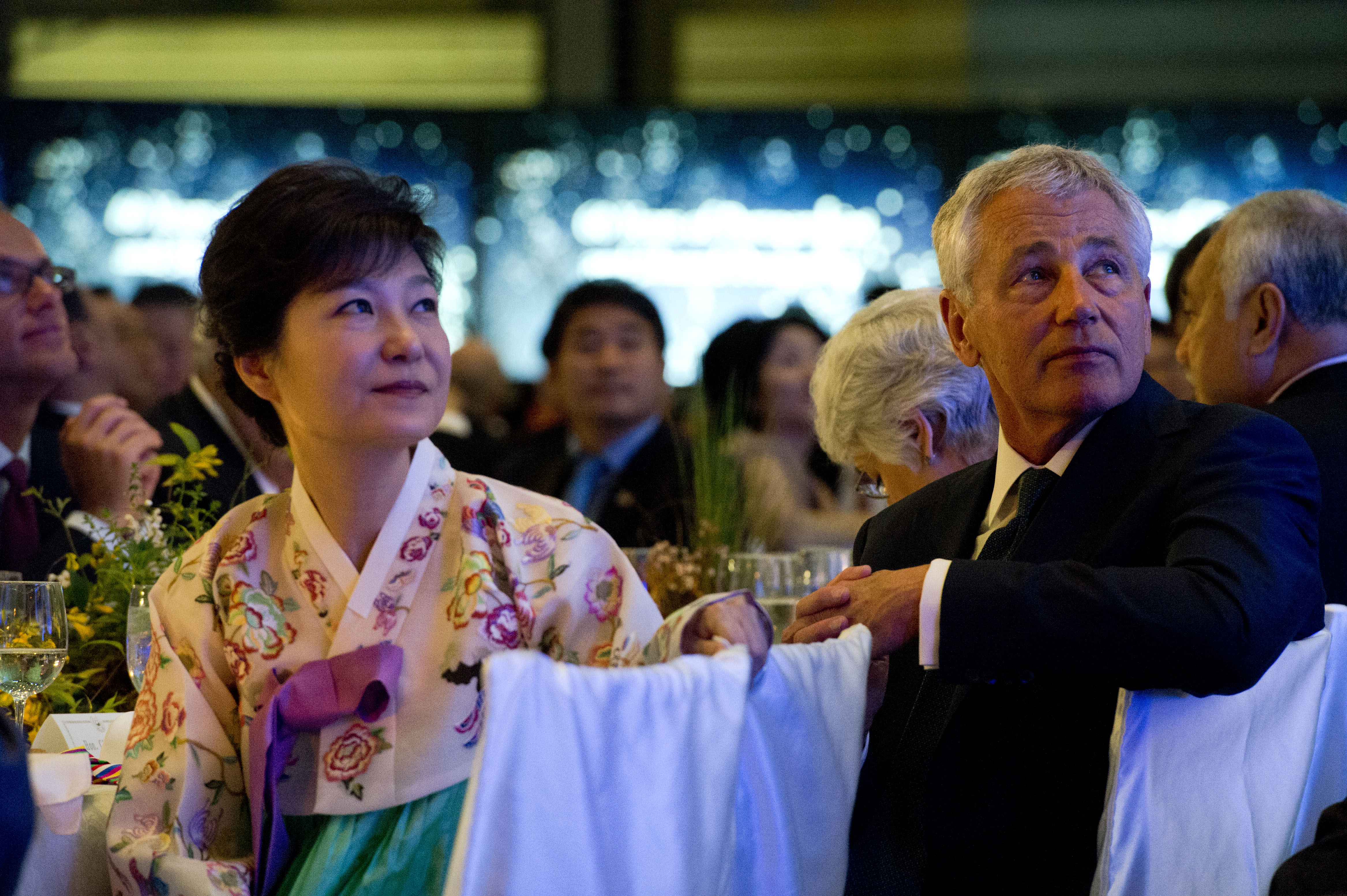 Secretary of Defense Chuck Hagel and Republic of Korea President, Park Geun-Hye, listen to a toast during the 60th Anniversary Gala of the U.S.-Republic of Korea Alliance, at the National Portrait Gallery in Washington D.C. May 7, 2013. Hagel also met with President Park for a bilateral engagement prior to the event.(Photo by Erin A. Kirk-Cuomo) (Released)